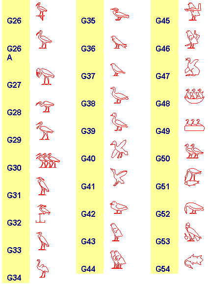 Description: Egyptian hieroglyphs of the Gardiner's list Source: own work Date: October 2005 Author: --Immanuel Giel 09:57, 26 October 2005 (UTC) Other versions: none